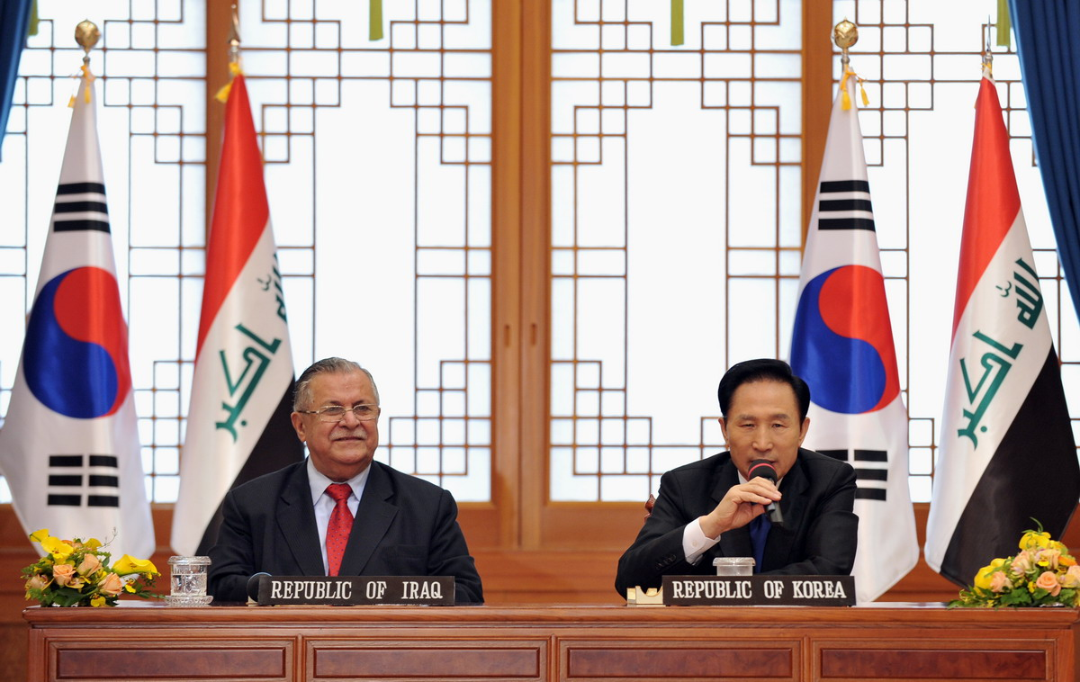 Iraqi President Jalal Talabani visiting Korea in February 2009 for a summit with President Lee Myung-bak